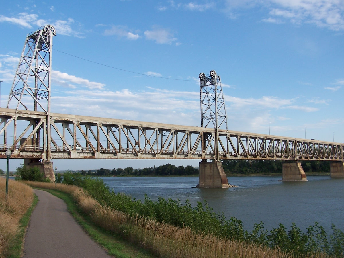 Meridian Highway Bridge in Yankton, South Dakota, taken from the Northwest on the South Dakota side.